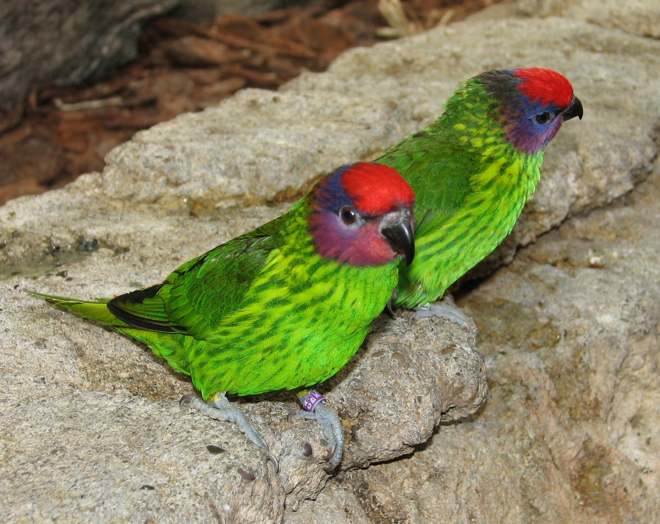 Goldie's Lorikeet (Psitteuteles goldiei) at Newport Aquarium, Kentucky, USA.